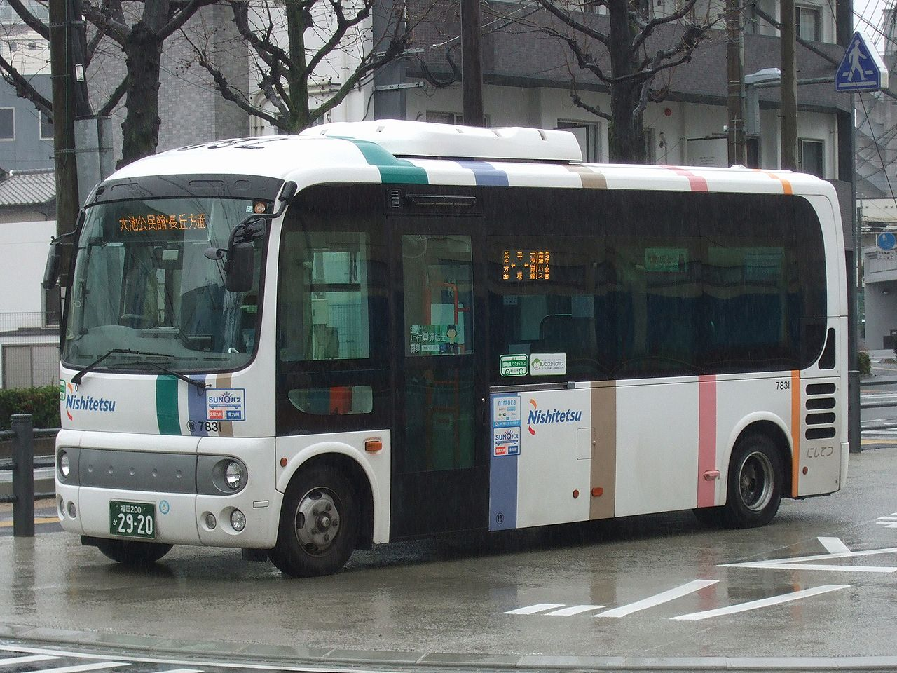 Company:Nishi-Nippon Railroad Use:transit bus Car license:FOF200 KA 2920 Belongs to:Hibaru Depot Code:7831 Chassis manufacturer:Hino Type:Poncho Coachbuilder:J-BUS Location:In front of Nishitetsu Takamiya Station, Minami Ward, Fukuoka City, Fukuoka, Japan.